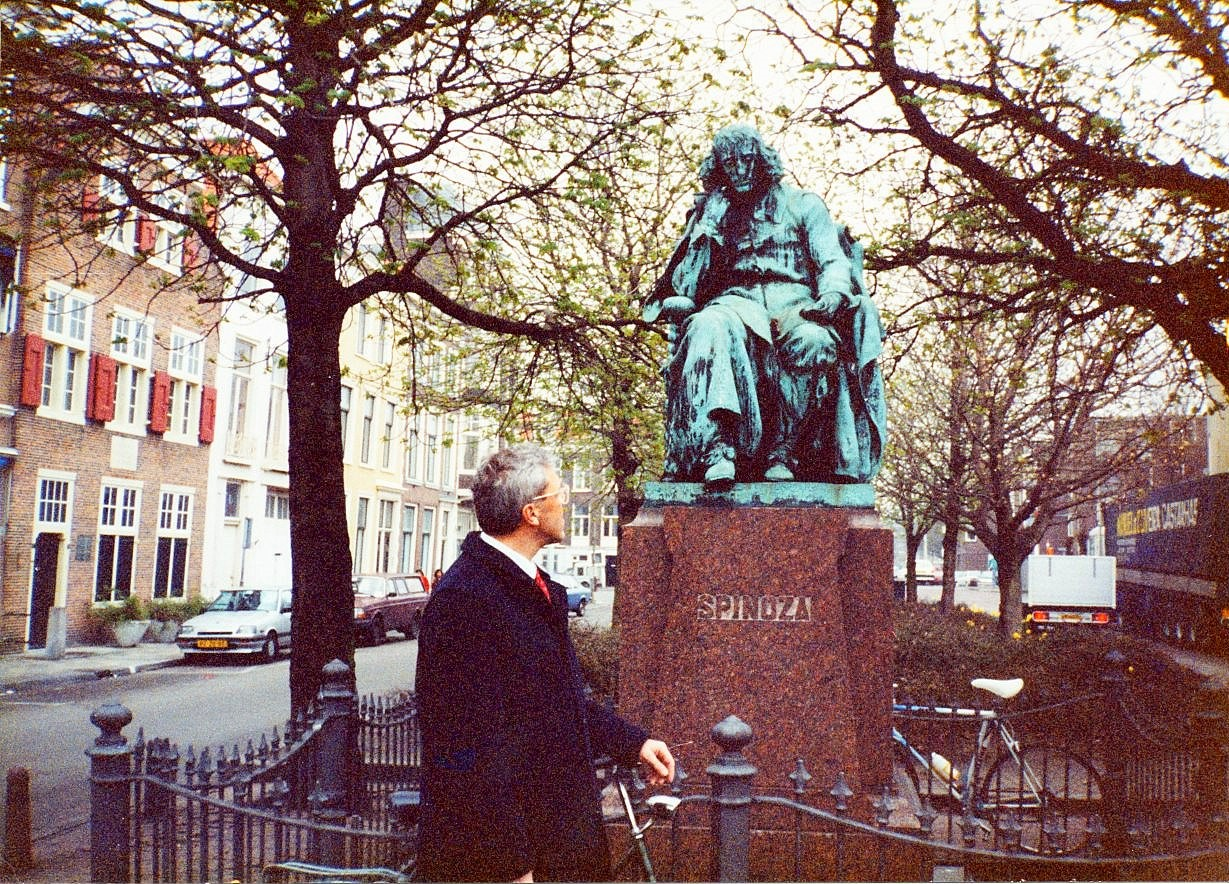 Swedish author, publisher, librarian and translator Joachim Siöcrona in front of a statue of Spinoza